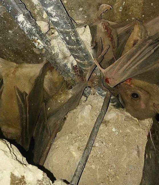 injured bats clinging to the collapsed ceiling when a building that had been their home for 20 years was demolished